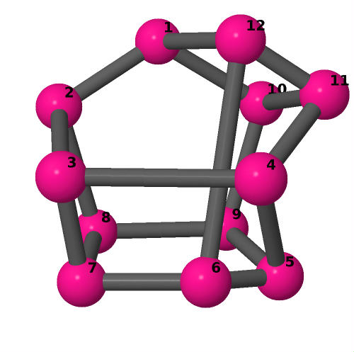 One of 85 simple cubic graphs with 12 vertices.